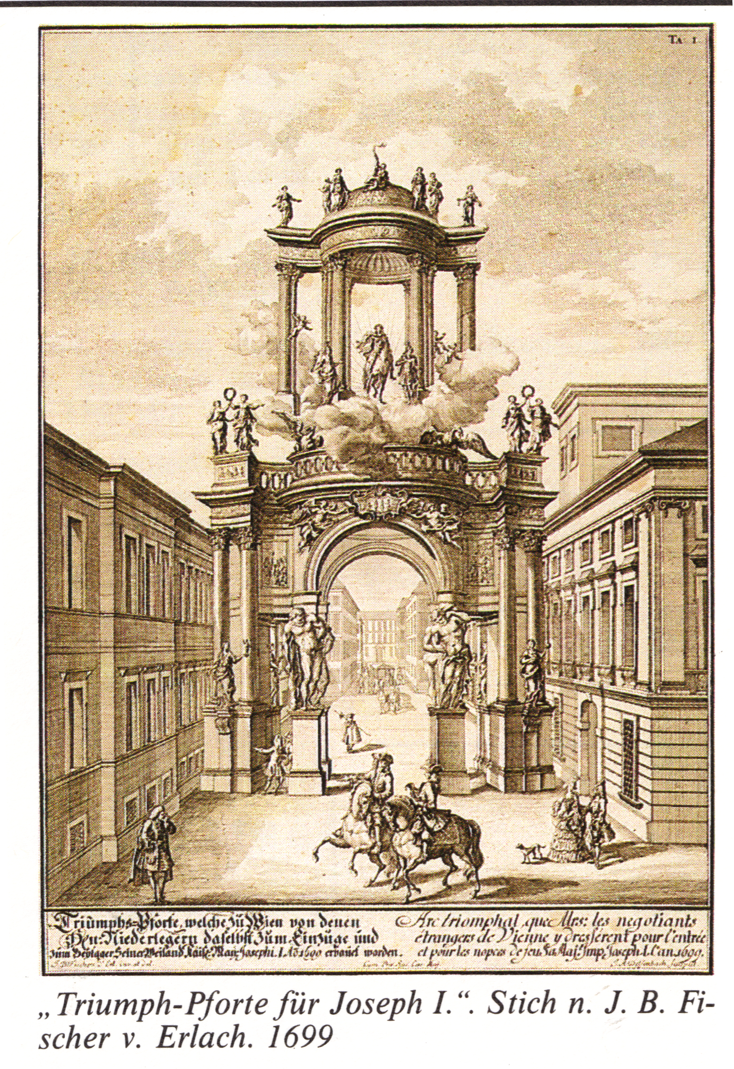 Temporary triumphal arch in Vienna, 1699